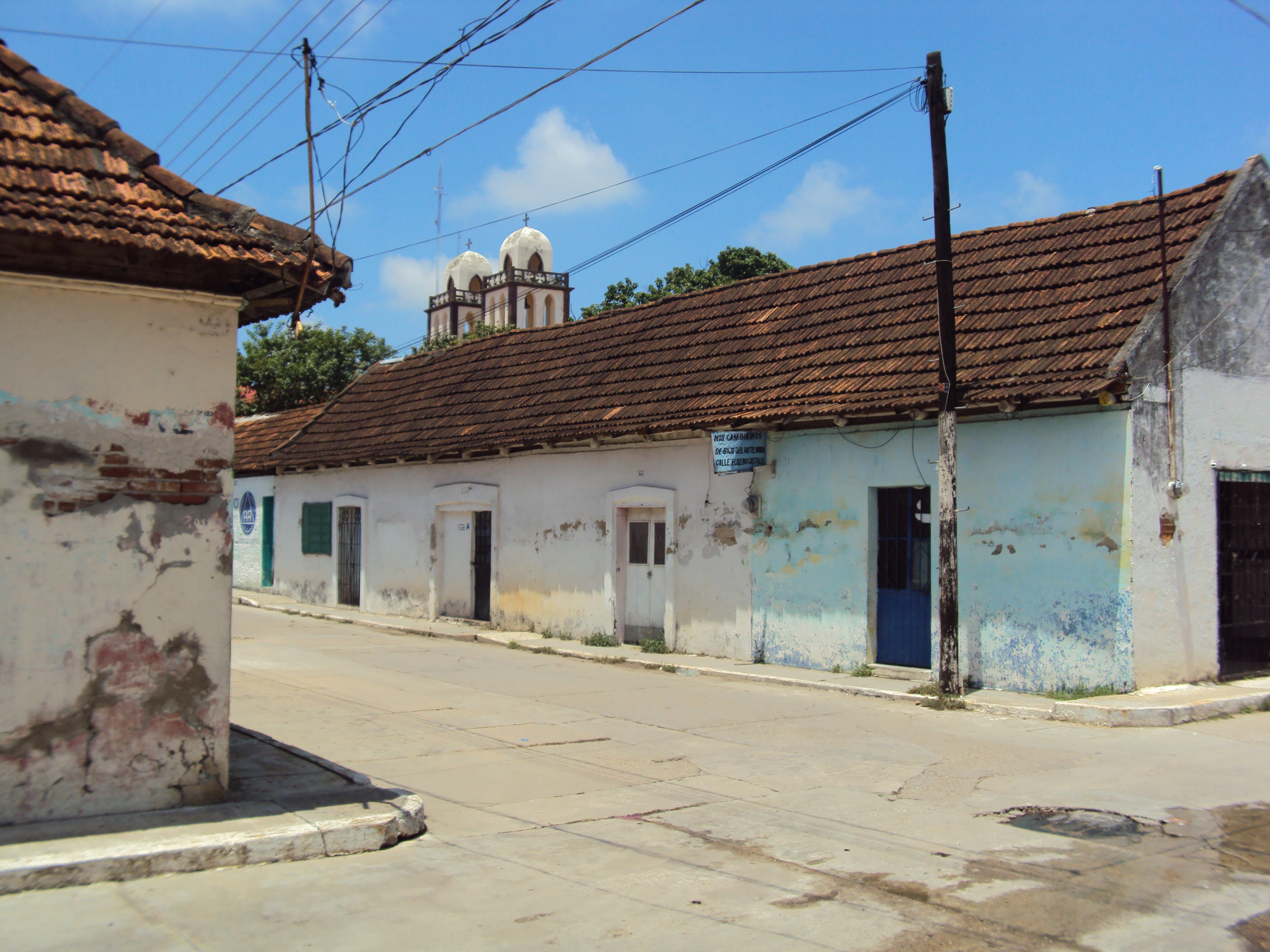 Part of the historic city center. The buildings date back to 1920, a period during which there was a boom of growth after the Mexican Revolution of 1910. Today these buildings are concentrated in the colony center, representing 60% of the total.